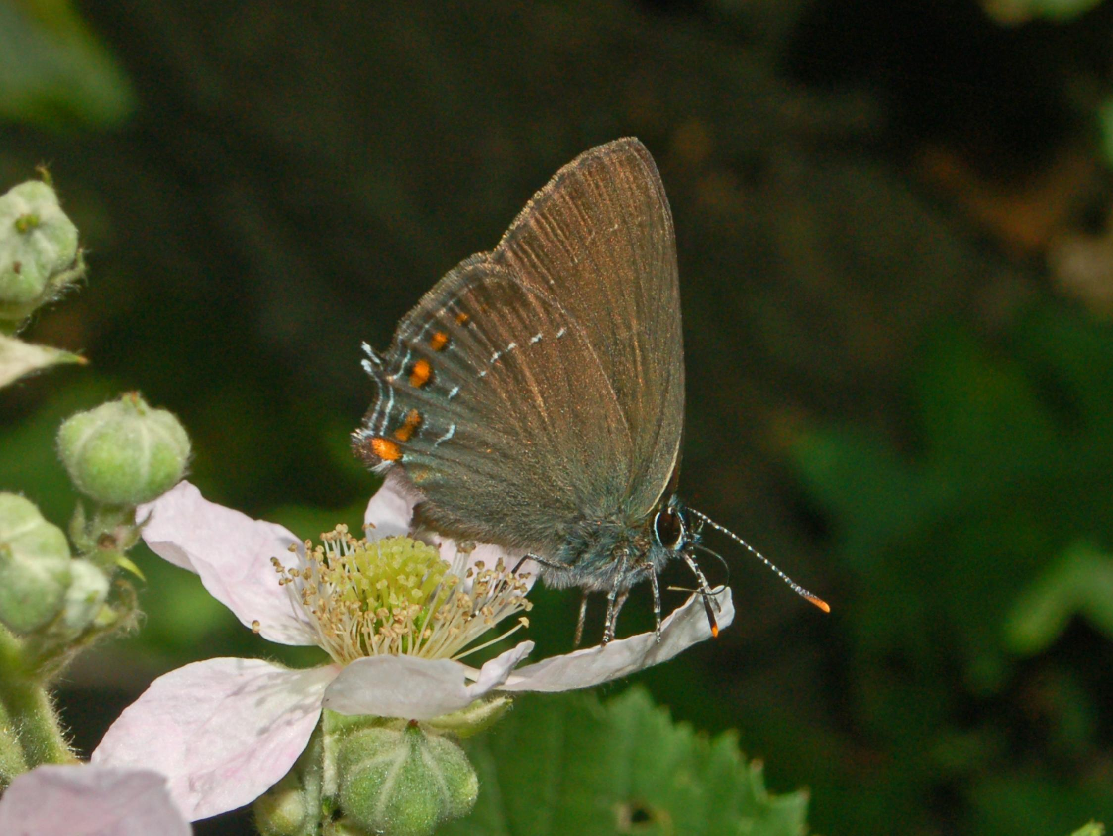 Lycaenidae - Satyrium ilicis